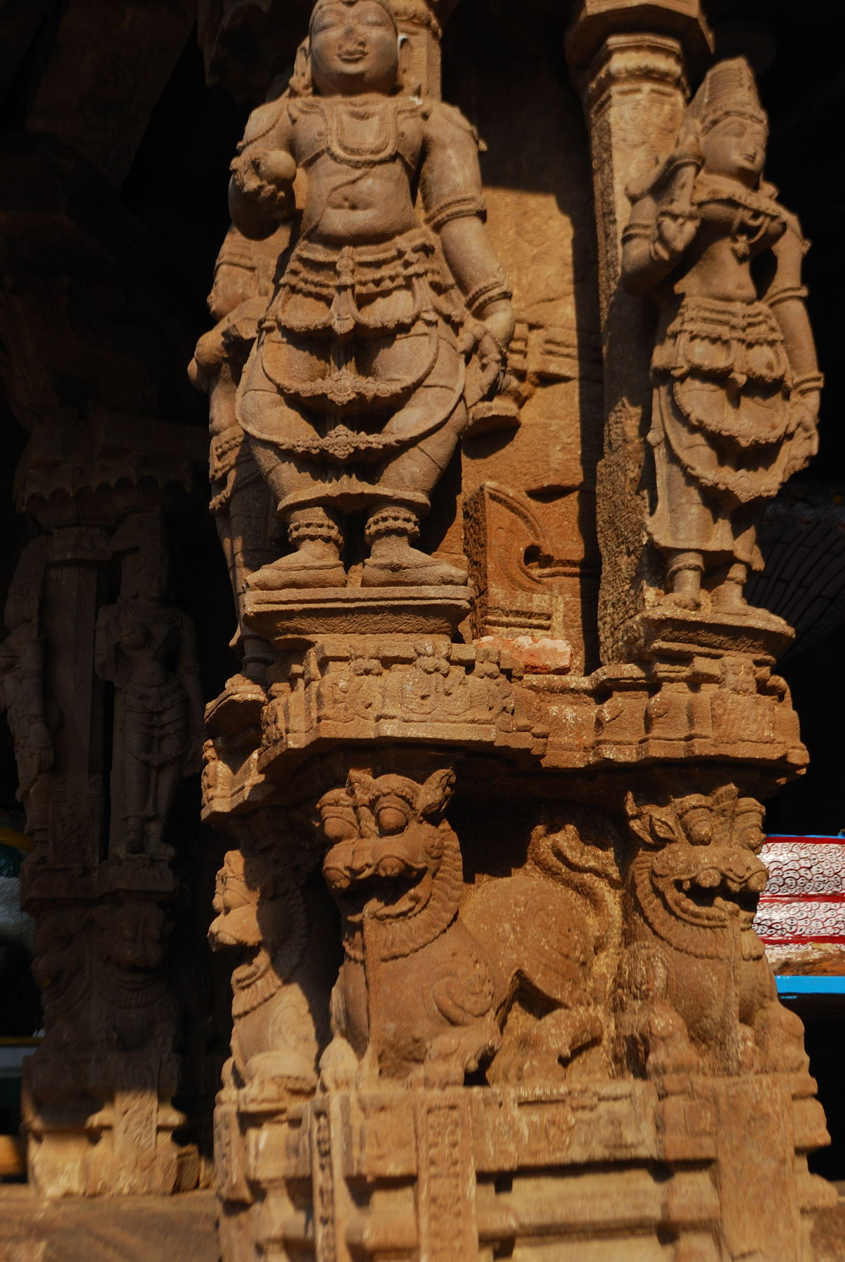 Intricate carvings on one of the stone pillars of the Vontimitta temple.